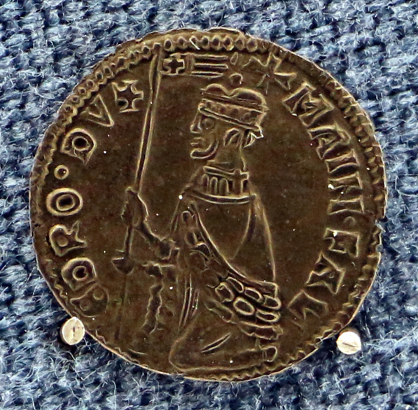 coins in Palazzo Blu (Pisa)